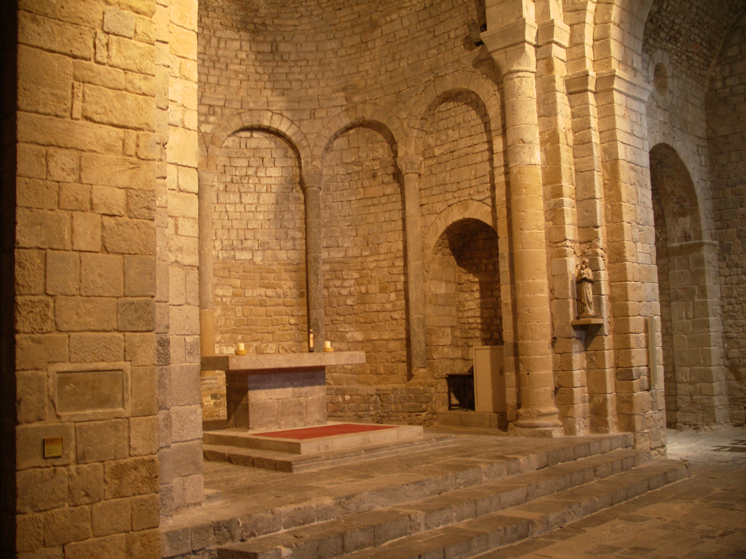 S. Maria de Vilabertran, with the tombstone of Alfons II of Aragon